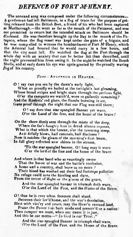 One of two surviving copies of the 1814 broadside printing of the Defense of Fort McHenry, a poem that later became the national anthem of the United States.